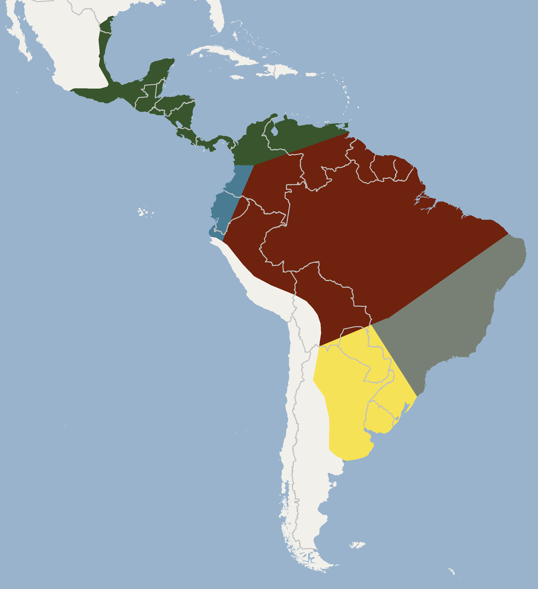 According to Kays & Wilson, 2009, Reid, 2009 and Gardner, 2008. Subspecies range: L.e.ega in brown, L.e.panamensis in green, L.e.caudatu in grey, L.e.argentinus in yellow and L.e.fuscatus in light blue